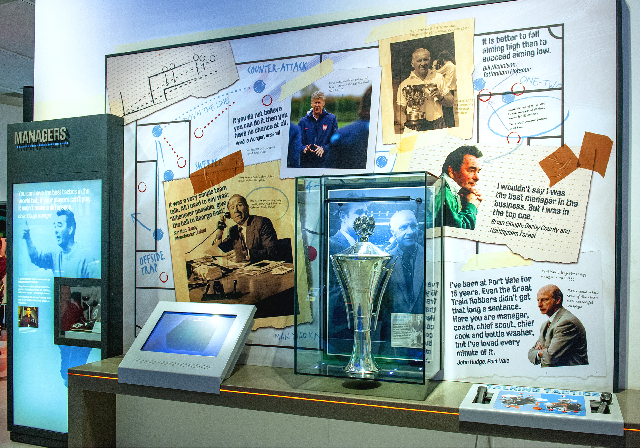 National Football Museum, Manchester.